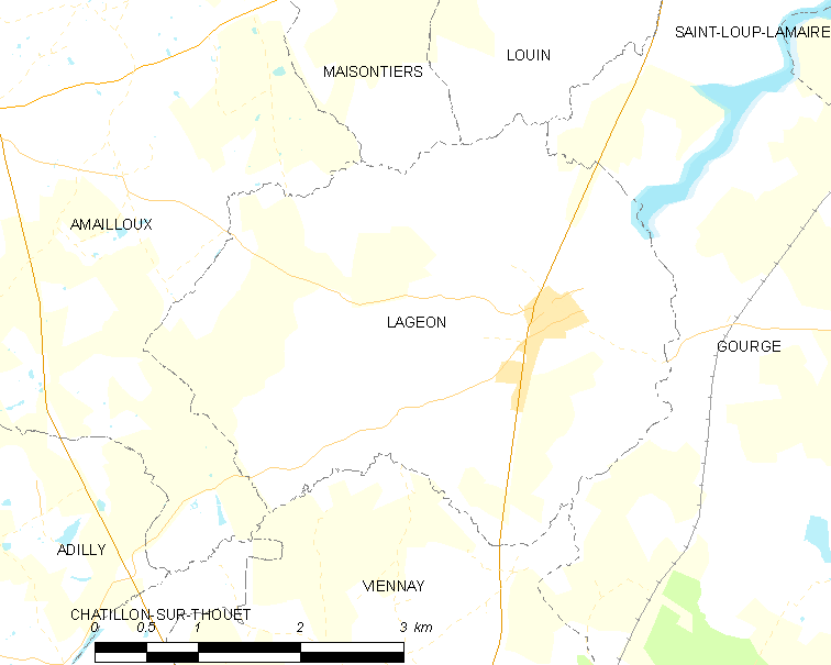 Map of French municipality Lageon